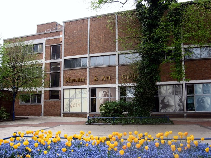 Derby Museum Being in Derby last Sunday for the Thanksgiving service for Bess of Hardwick, it seemed an excellent opportunity to visit this art gallery with its collection of Joseph Wright paintings - and excellent it was too. For more please see my blog